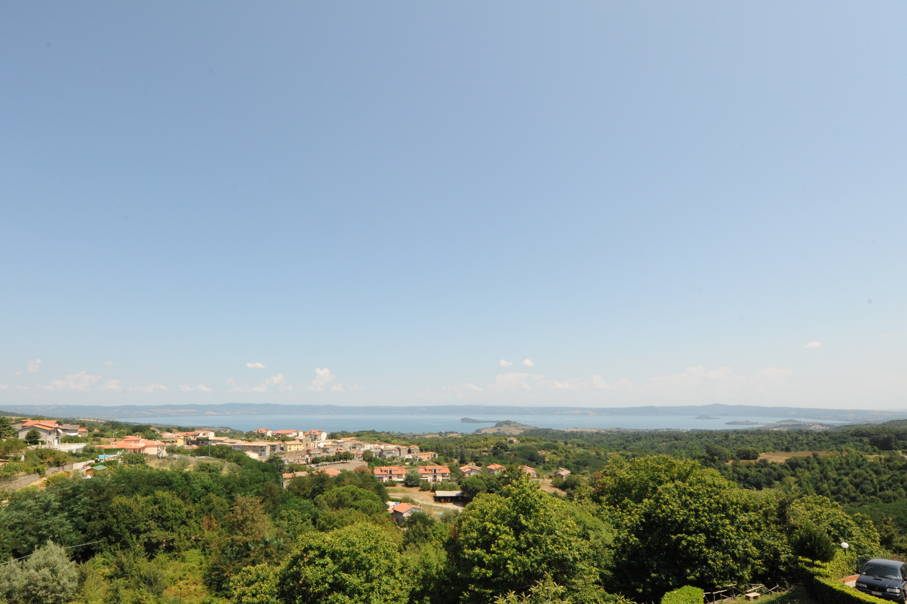 Lago di Bolsena visto da Villa Fontane frazione del Comune di Valentano, Vt